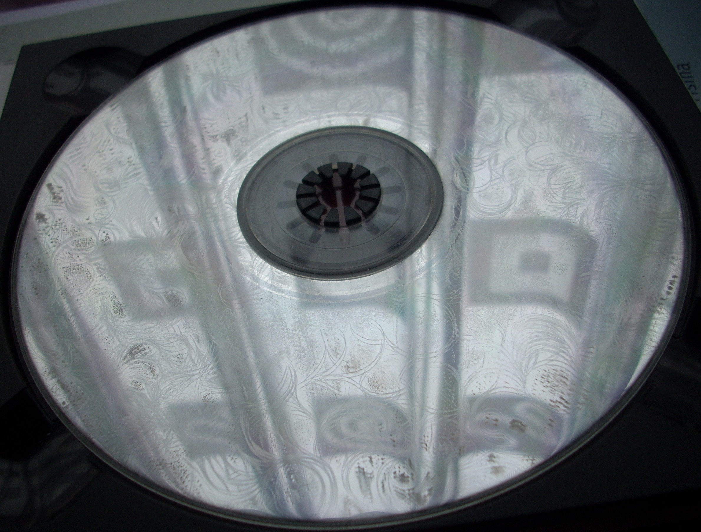 Corrosion of a Compact Disc (Depeche Mode - Condemnation, CD Bong 23, INT 826.765, Release year 1993)